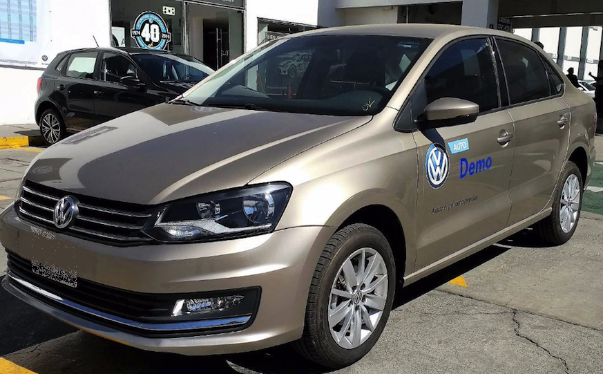 2016 model recibe a fresh facelift, only have cosmetic changes, few changes.